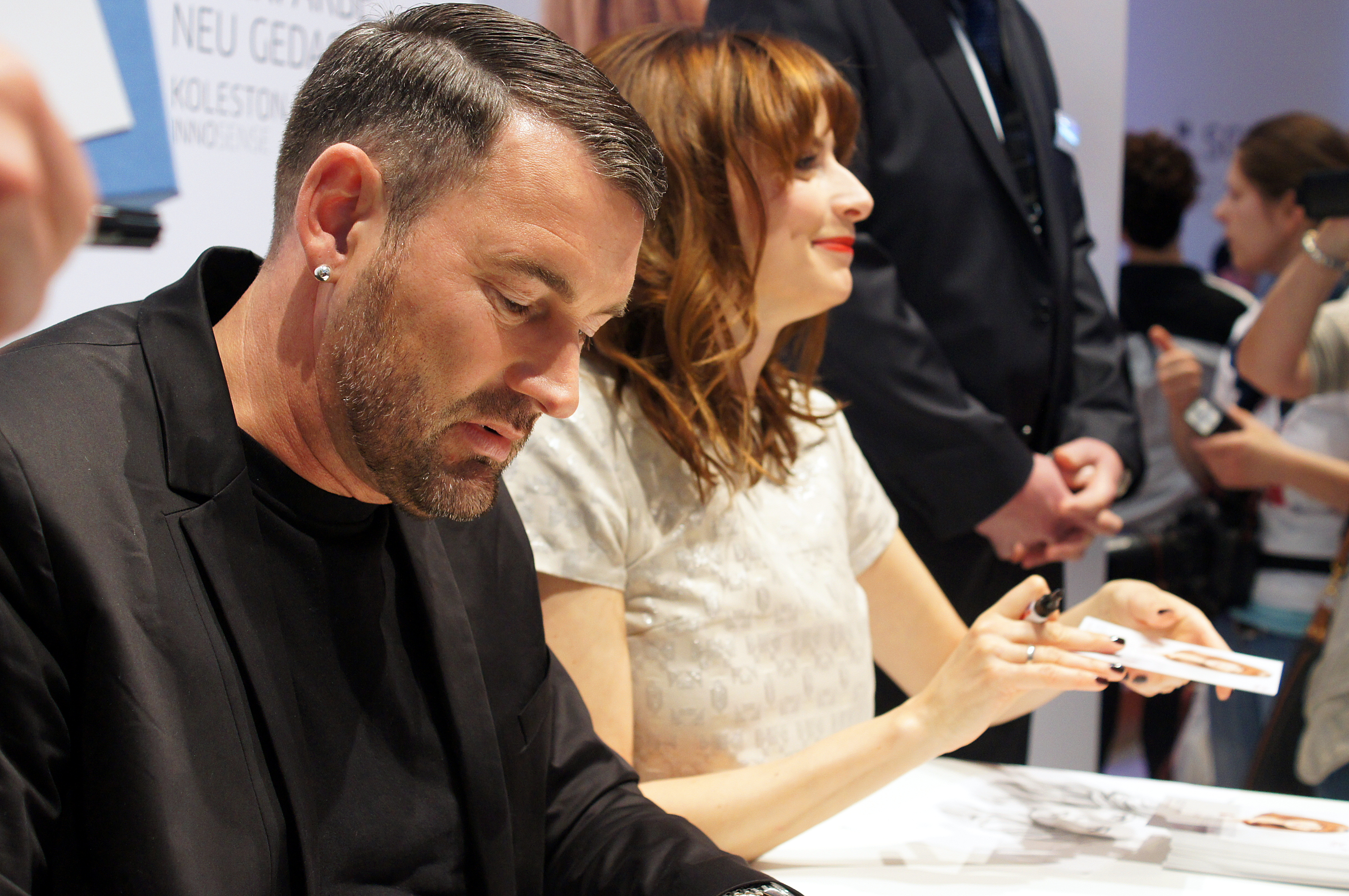 German fashion designer Michael Michalsky and German fashion model Eva Padberg signing portrait cards for their fans at Frankfurt "hair&beauty 2014" fair.